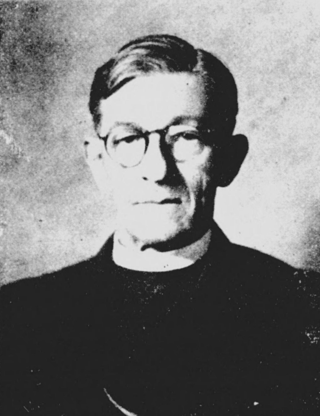 Charles S. Reifsnider in 1939.